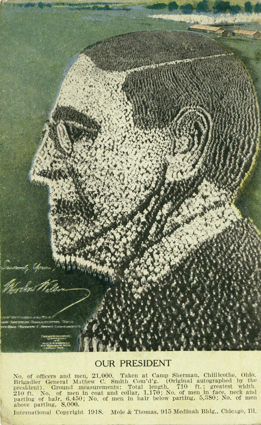 Postcard of image of Woodrow Wilson created by 21,000 soldiers at Camp Sherman in Chillicothe, Ohio in 1918. Picture side of postcard states "International Copyright 1918"